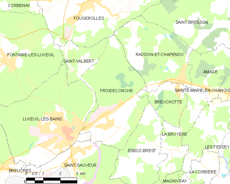 Map of French municipality